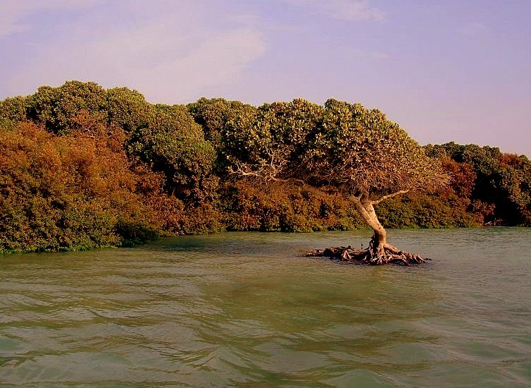 Mangrove growing on Kamaran Island (Red Sea).